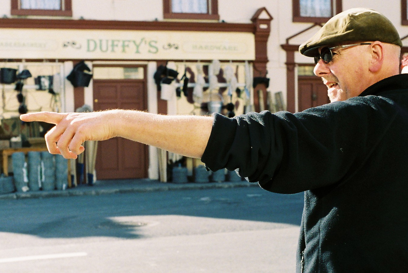 portrait Martin Duffy, irish filmdirector